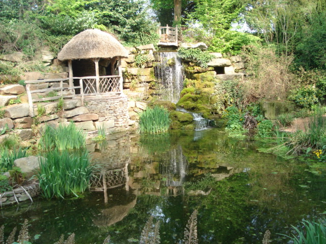 Sunken garden at Hampton Court One of the best artificial waterfalls in the country takes the outflow from the walled garden. There is a tunnel from the hut on the left to the tower at the centre of the maze. So much to see in this garden.